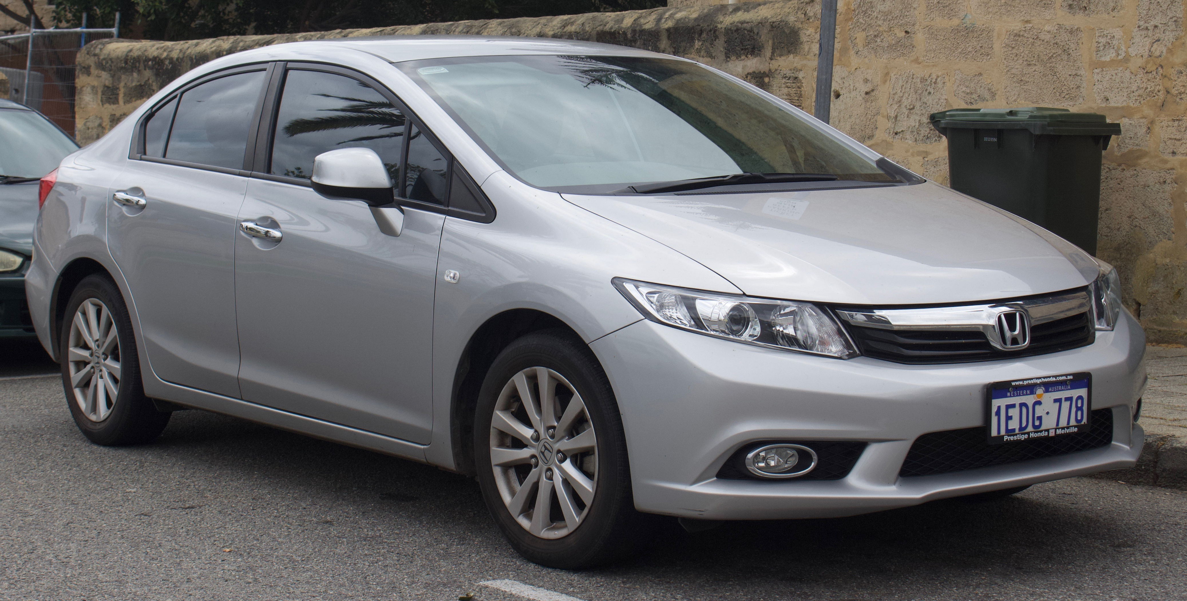 2013 Honda Civic (FB2 MY13) VTi-L sedan. Photographed in Fremantle, Western Australia, Australia.